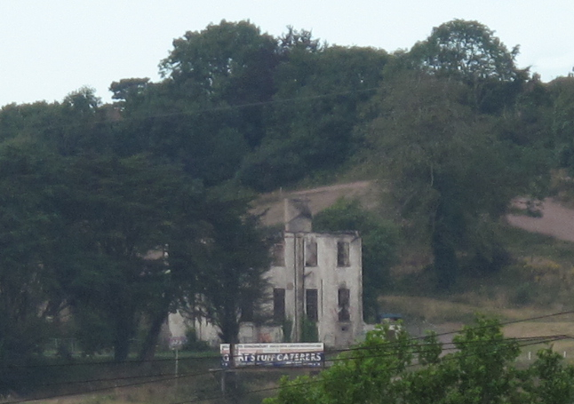 Embarrassingly low quality capture of Vernon Mount House, Cork, Ireland from August 2016. Captured from some distance across the Douglas Road, this image is taken after the 2016 fire which destroyed much of the structure.